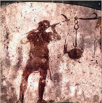 Fossor. Catacombs of Saints Marcellinus and Peter.